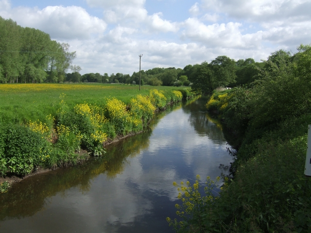 River Stour upstream of Caunsall Bridge